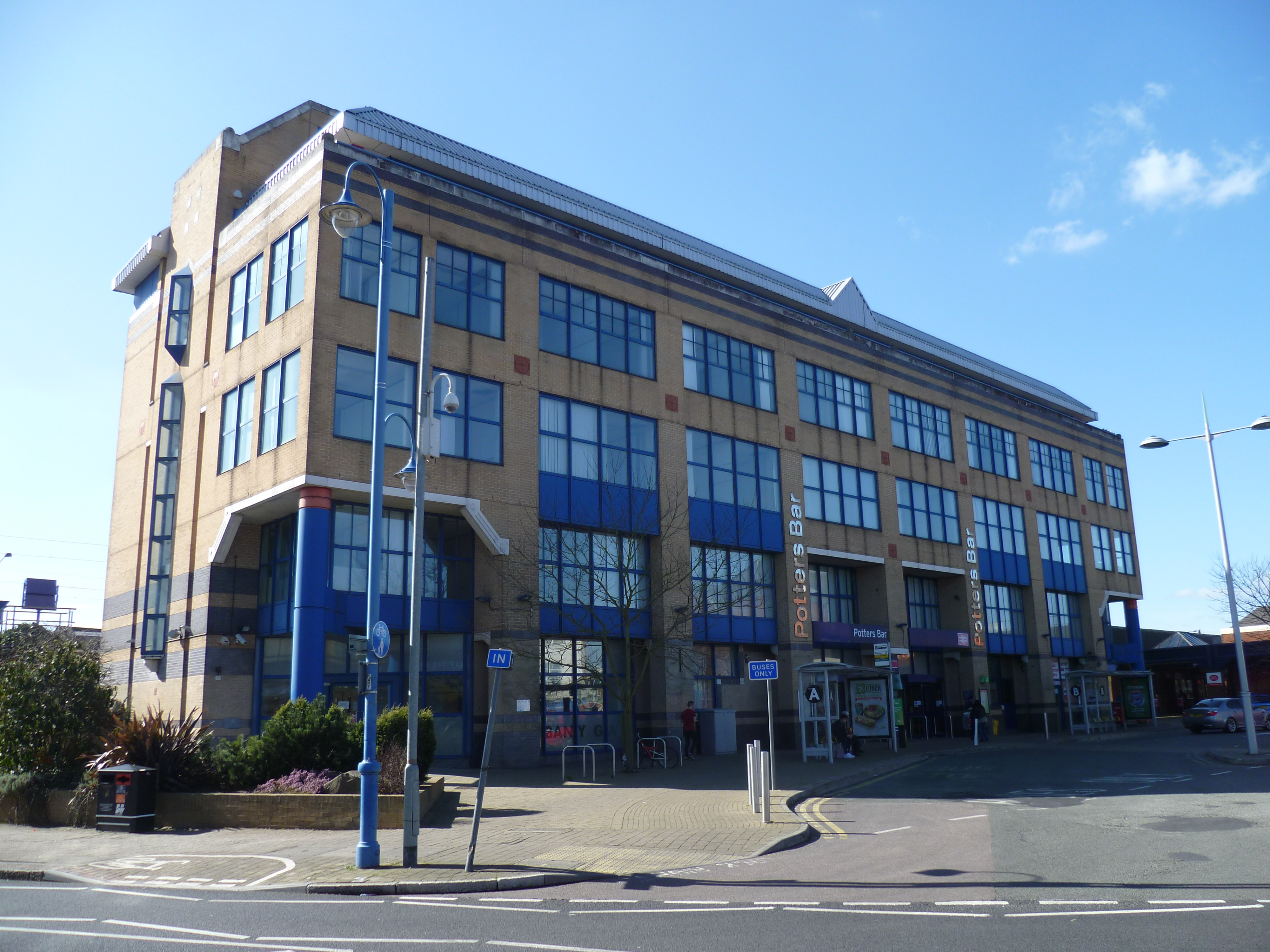 Potters Bar